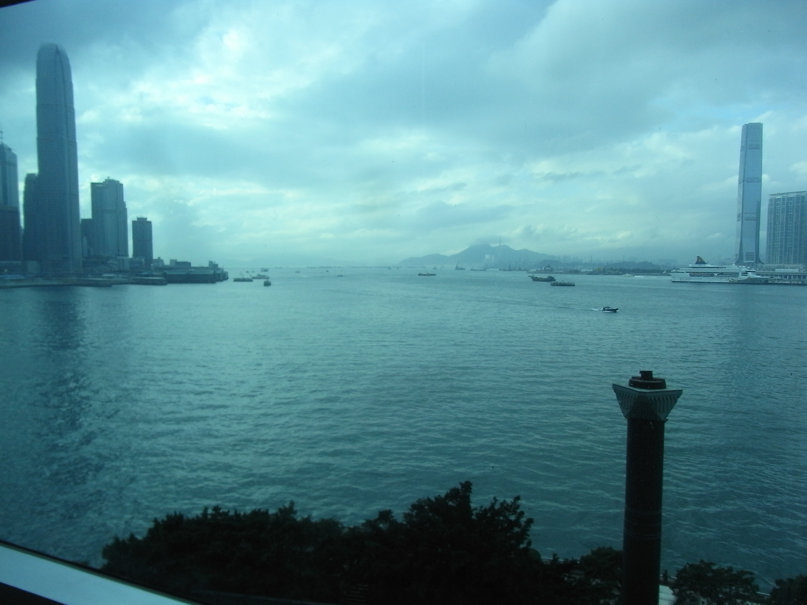 View from HKCE, Wan Chai, Hong Kong